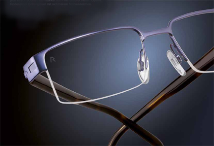 The Rodenstock brand mark "R"